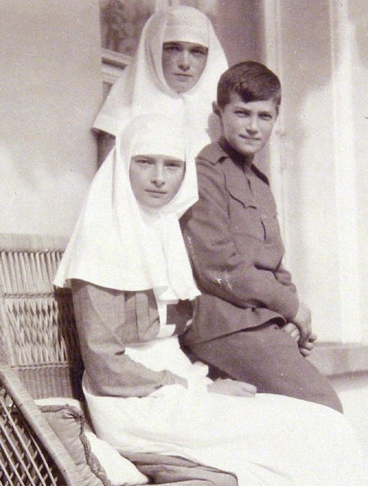 Tatiana & Olga with their brother Alexei, circa 1915